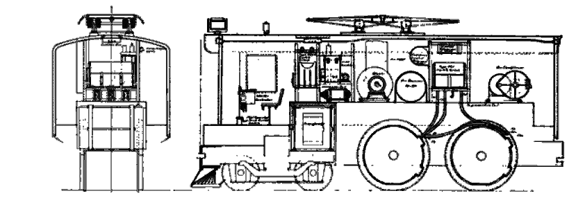 Pennsylvania Railroad PRR Odd D 10003, an experimental 4-4-0 electric locomotive built in 1909.